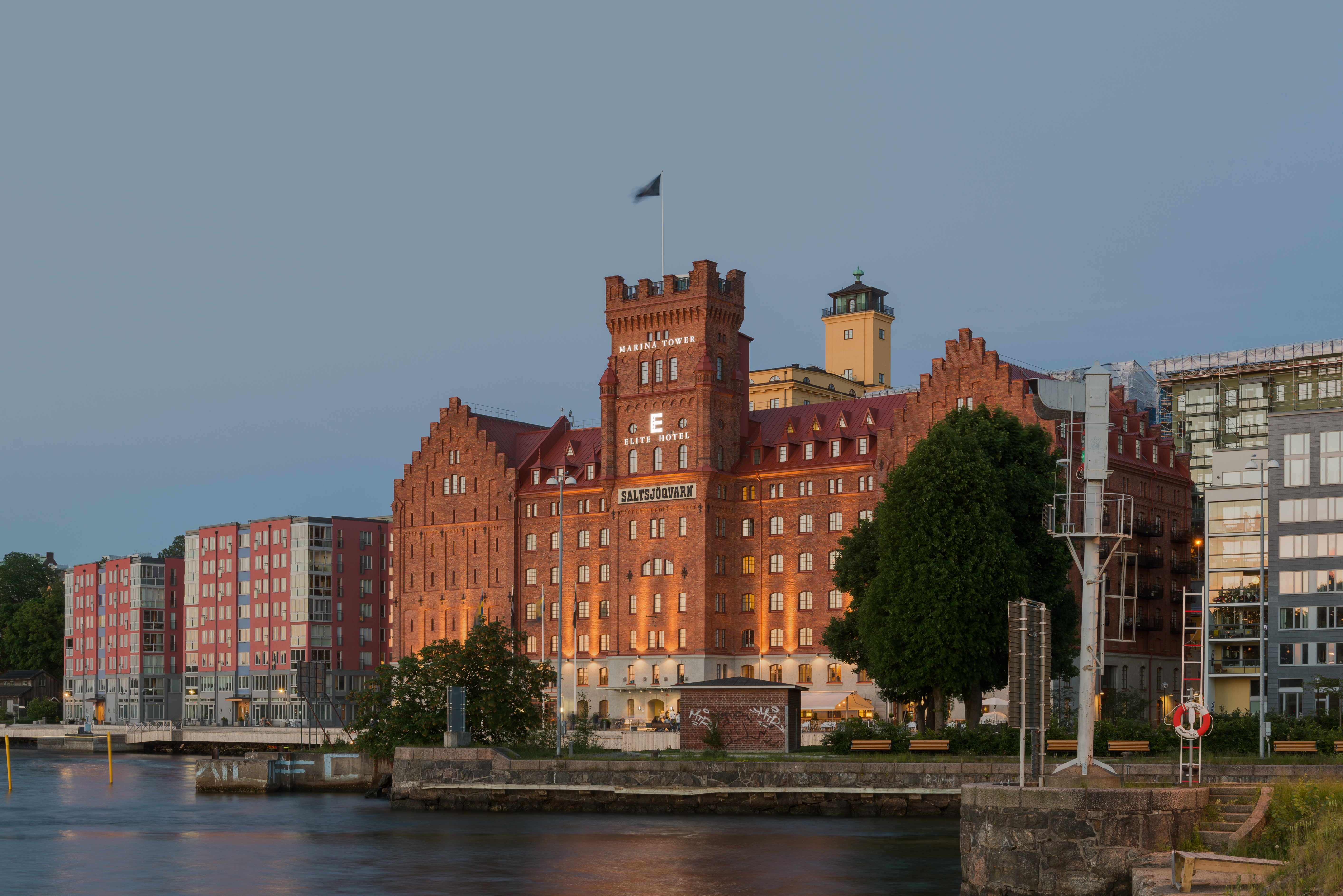 Saltsjökvarn, Nacka. Old mill (today a hotell). Exposure fusion (2 exposure)